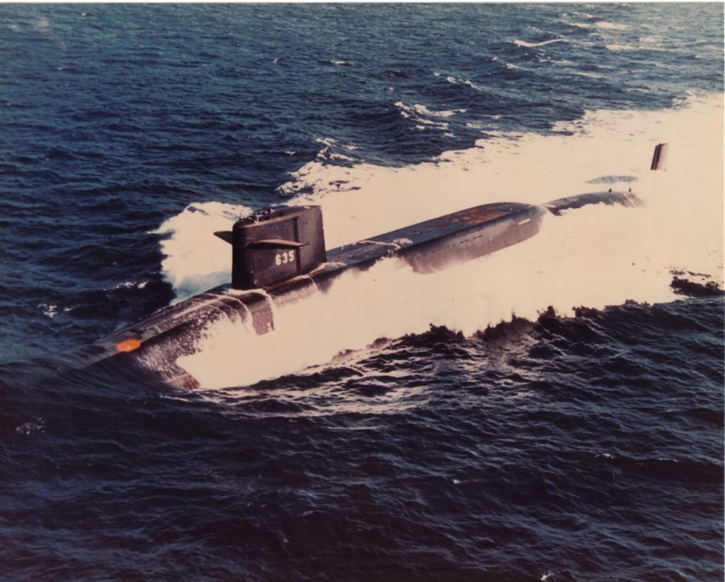 United States Navy fleet ballistic missile submarine off the United States East Coast, probably while on sea trials